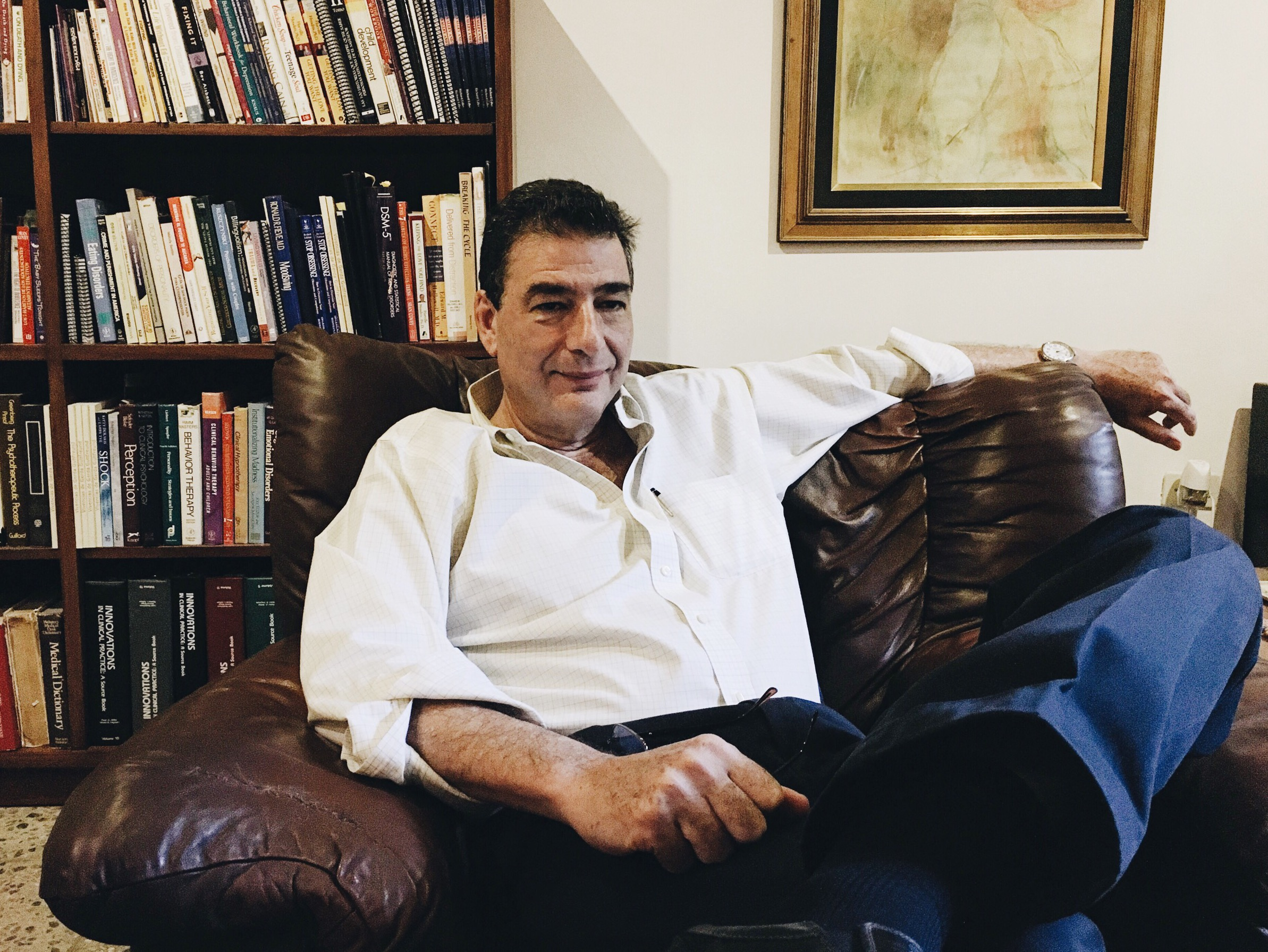 Dr. Daniel Guttfreund in his clinic in Colonia San Benito, San Salvador.